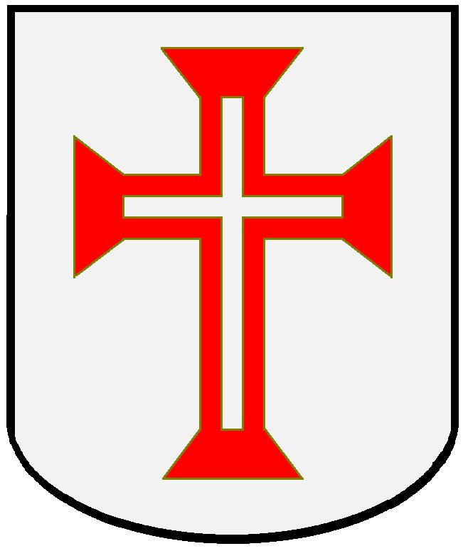 An heraldic cross.